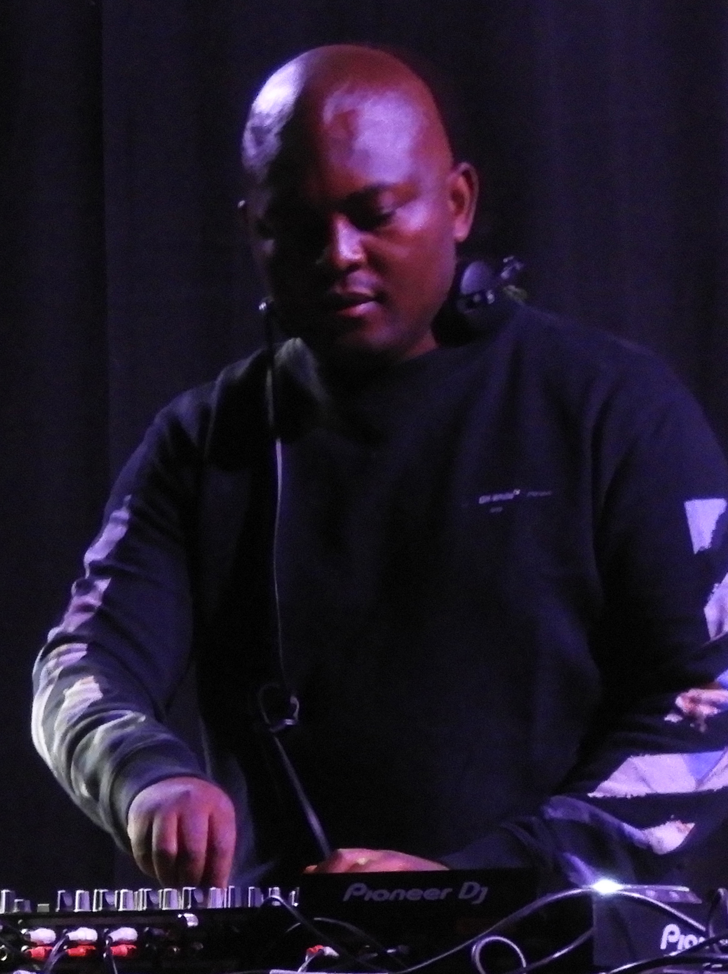 Themba performs at Womadelaide 2020, Botanic Park, Adelaide, South Australia